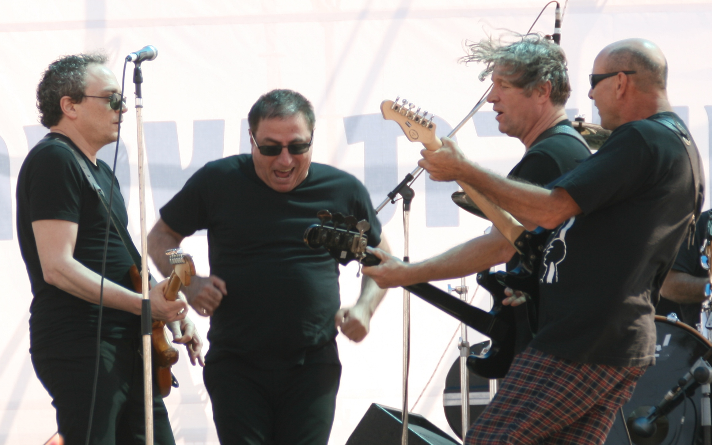 T-Slam during a performance at Achzib beach during a celebration of Israel's 60th anniversary